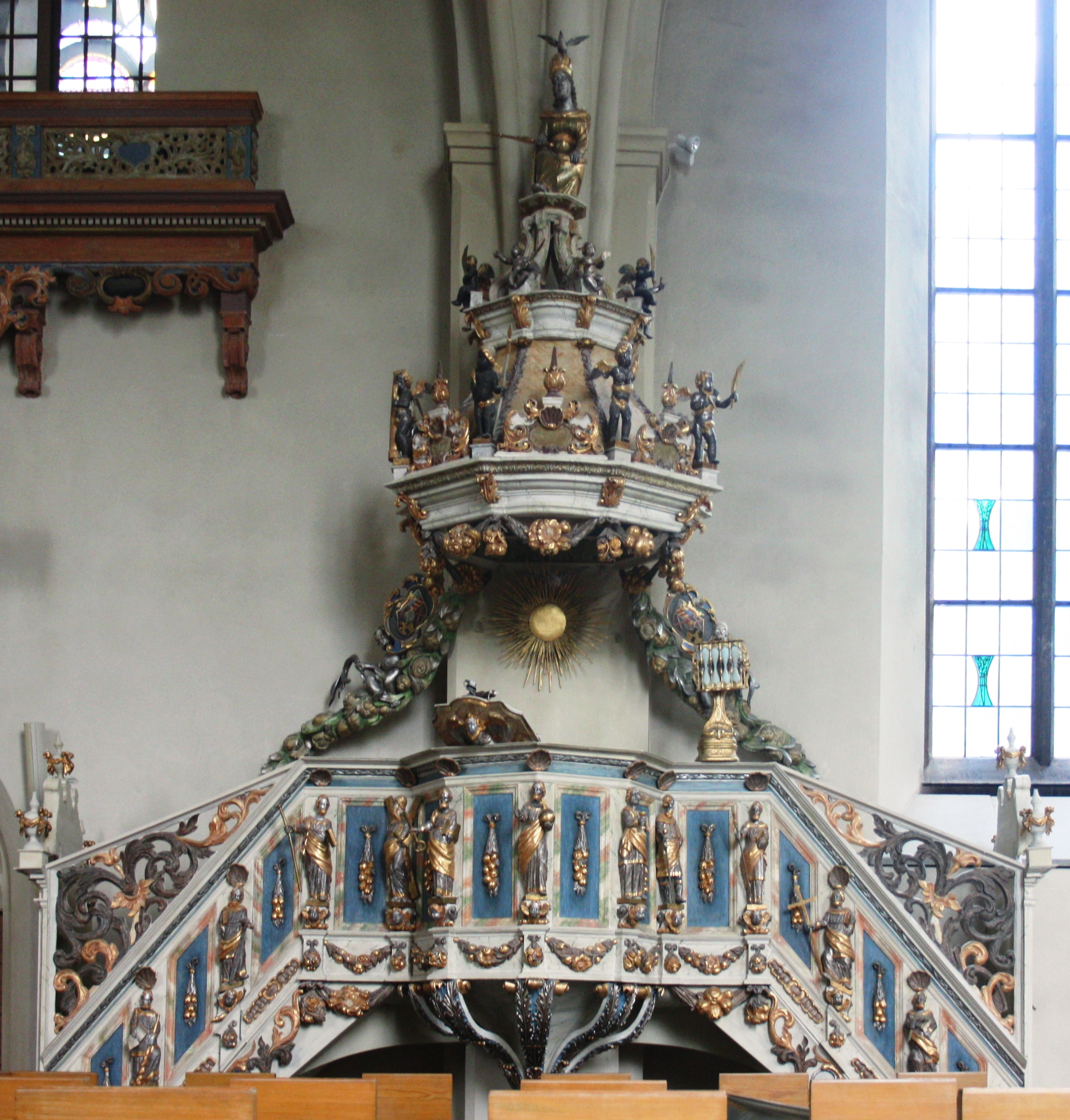 Cathedral in Mariestad, Sweden. Pulpit.